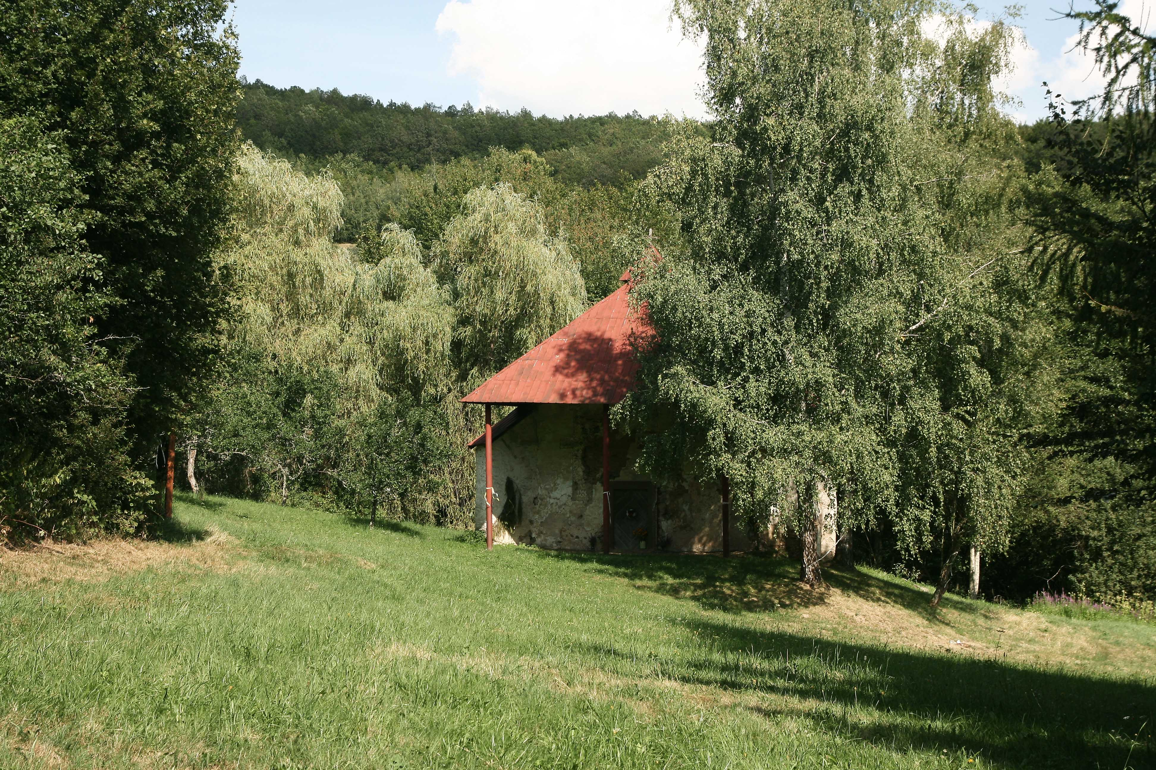 Romanesque Saint Mary Magdalene Church in Rakovnica, Slovakia.